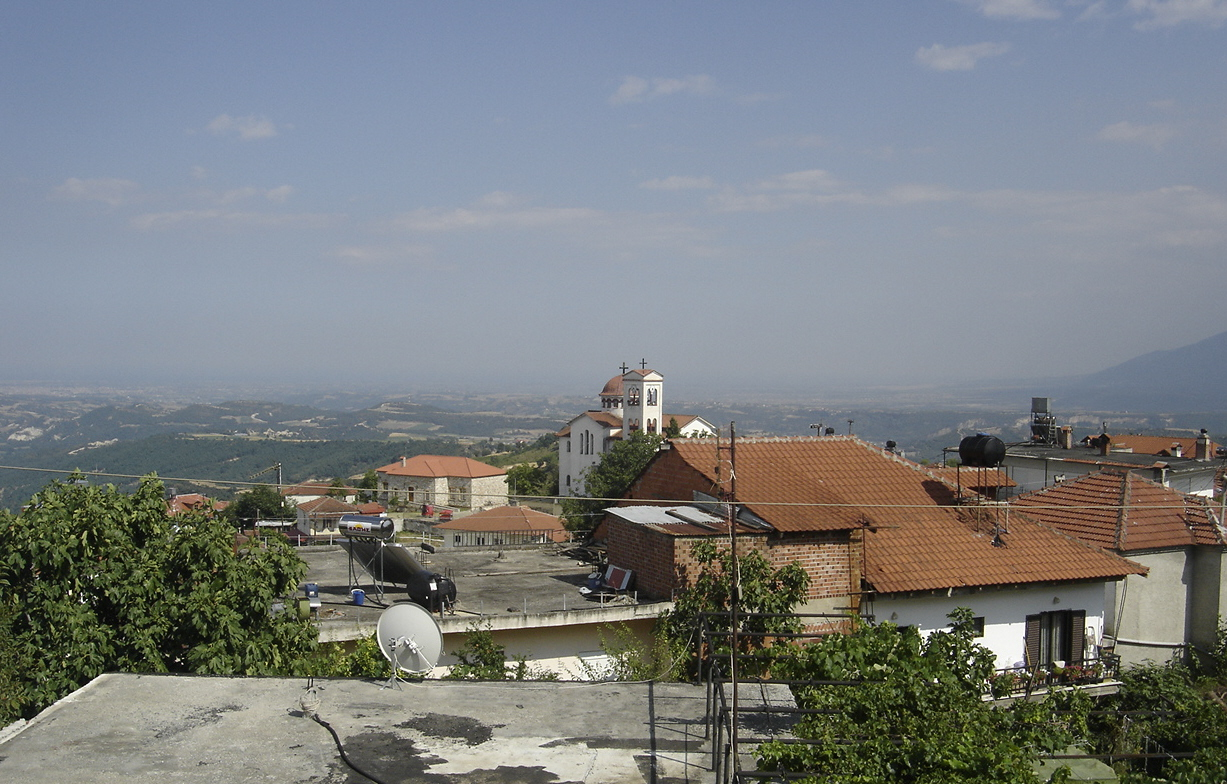 A view from Ritini.